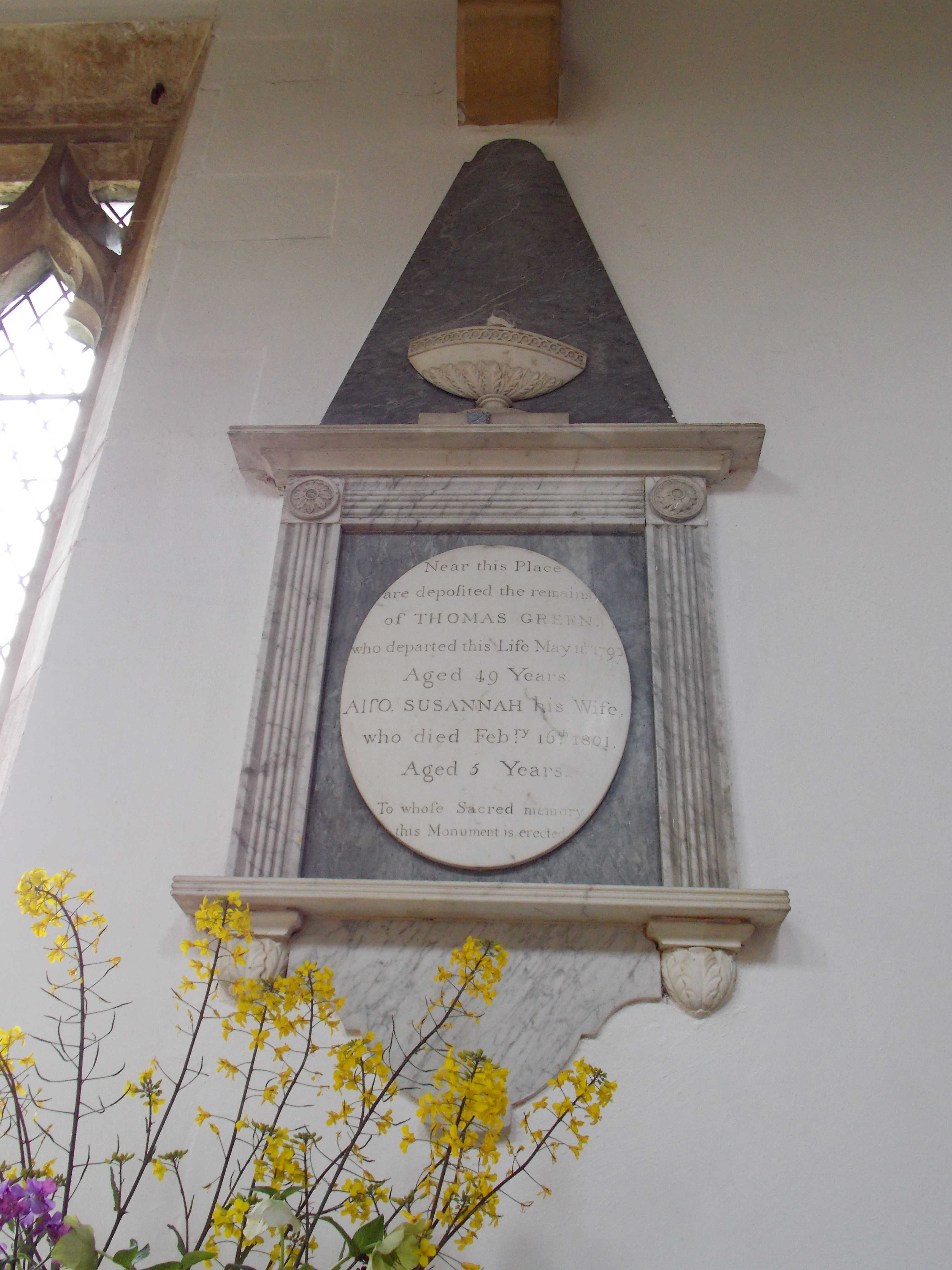 Aslackby St James, interior - South Aisle plaque 02